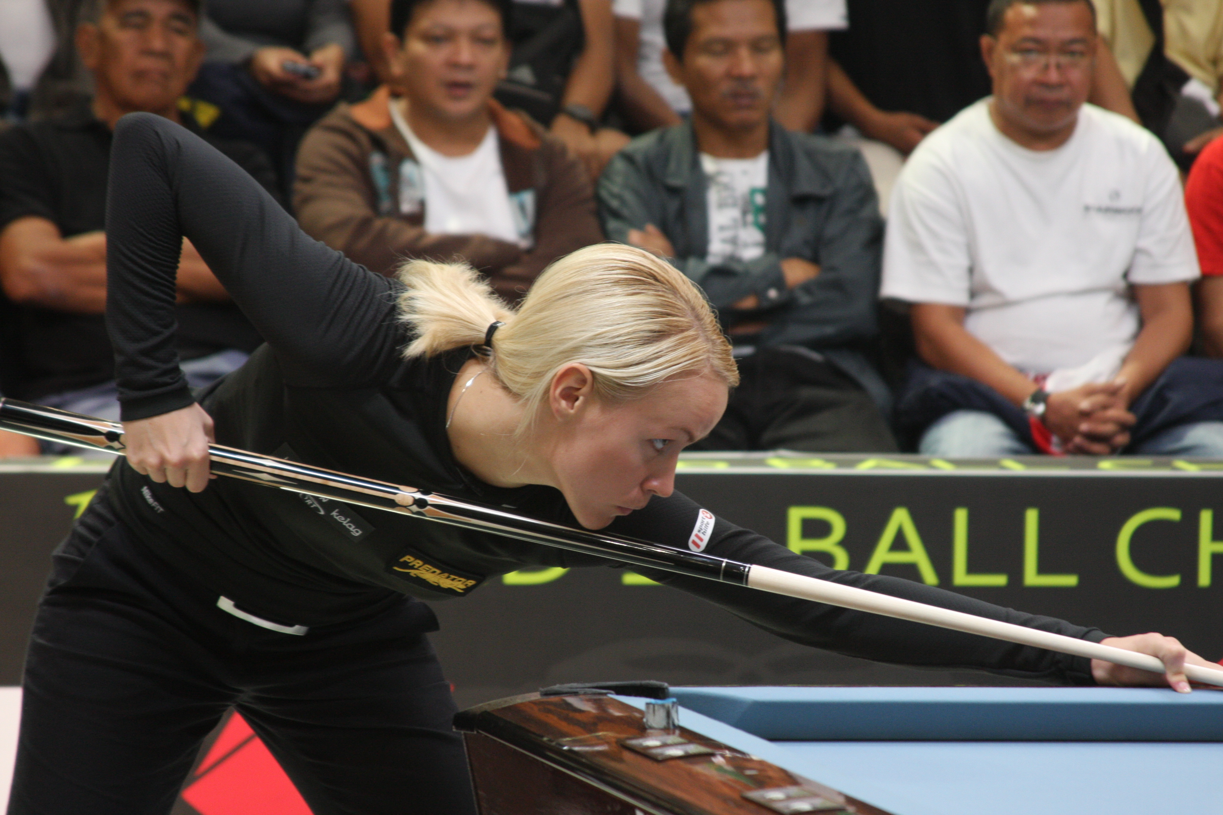 Jasmin Ouschan shooting pool